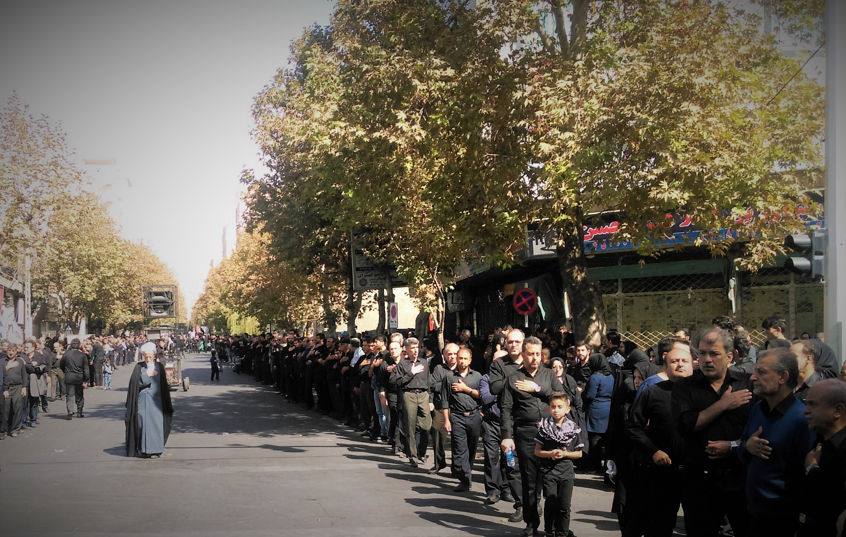 Moharram commemoration in Tehran, Iran.